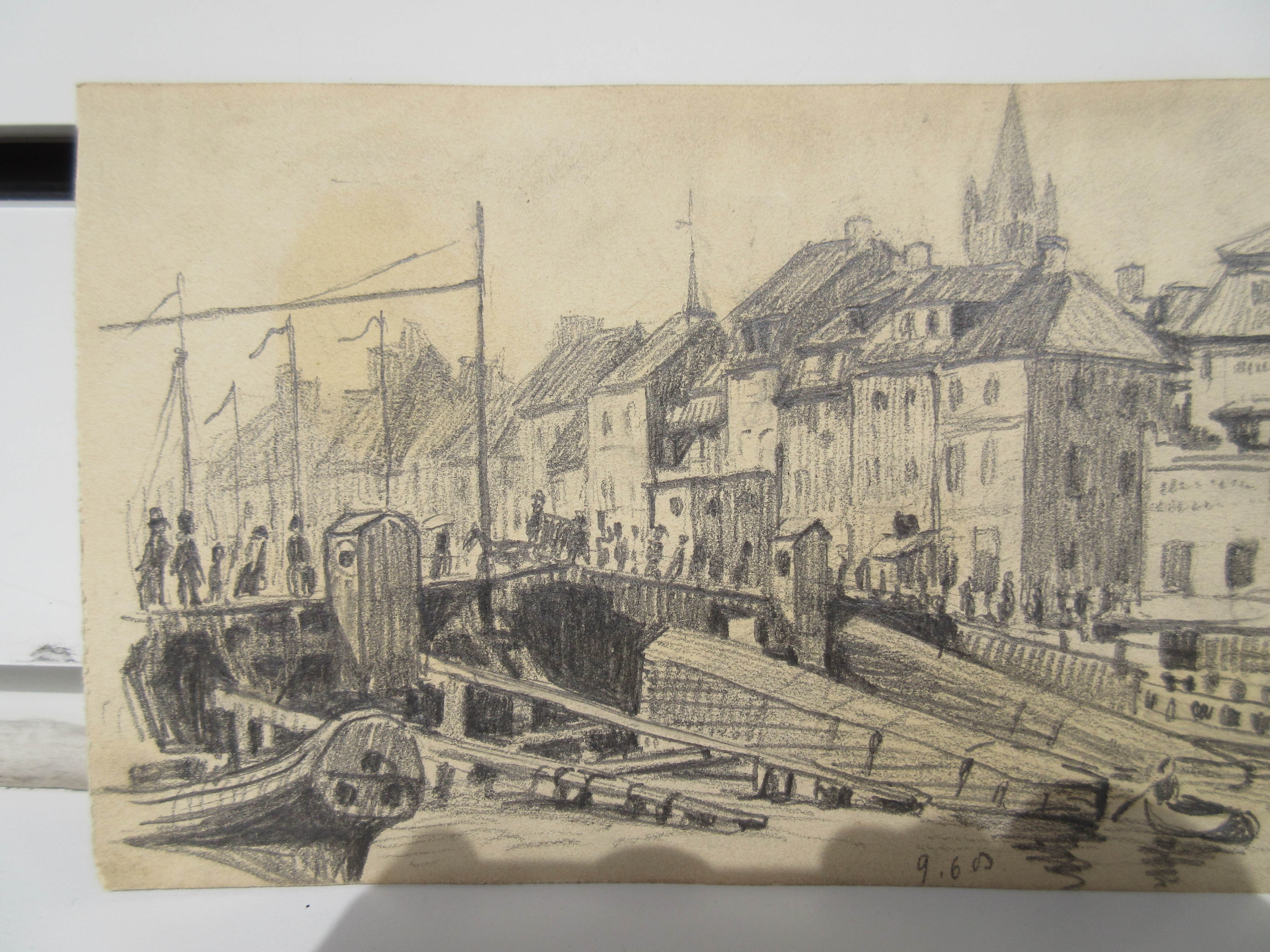 Pencil drawing showing Königsberg (1906)